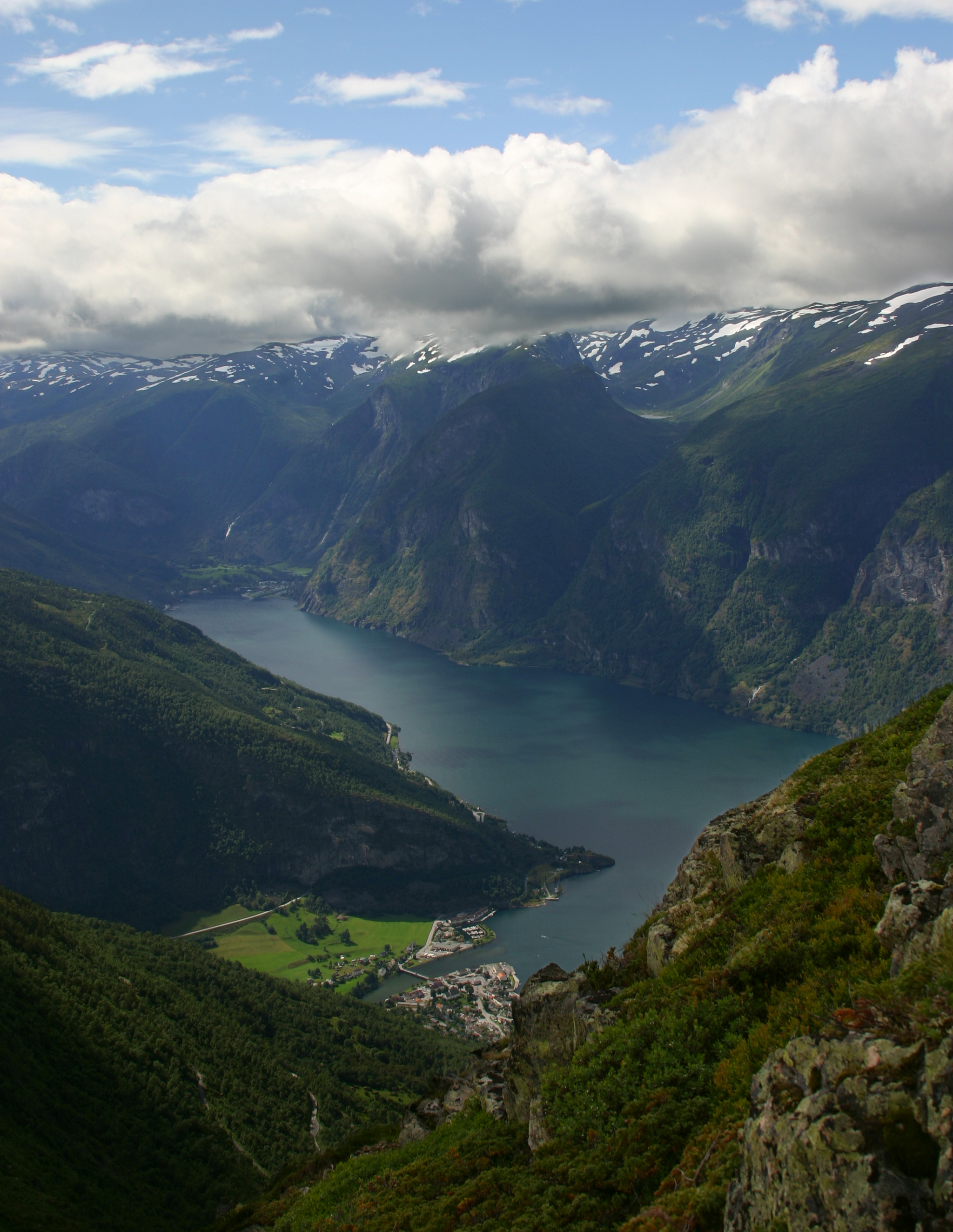 View of the Aurlandsfjorden (part of the Sognefjorden) and Aurlandsvangen and Flåm. Taken below the summit of Prest. Photographer: Oyvind Roti